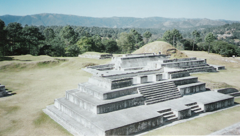 Personal photo taken while in Guatemala. Photo of the Zaculeu Ruins in HueHuetenango, Guatemala.